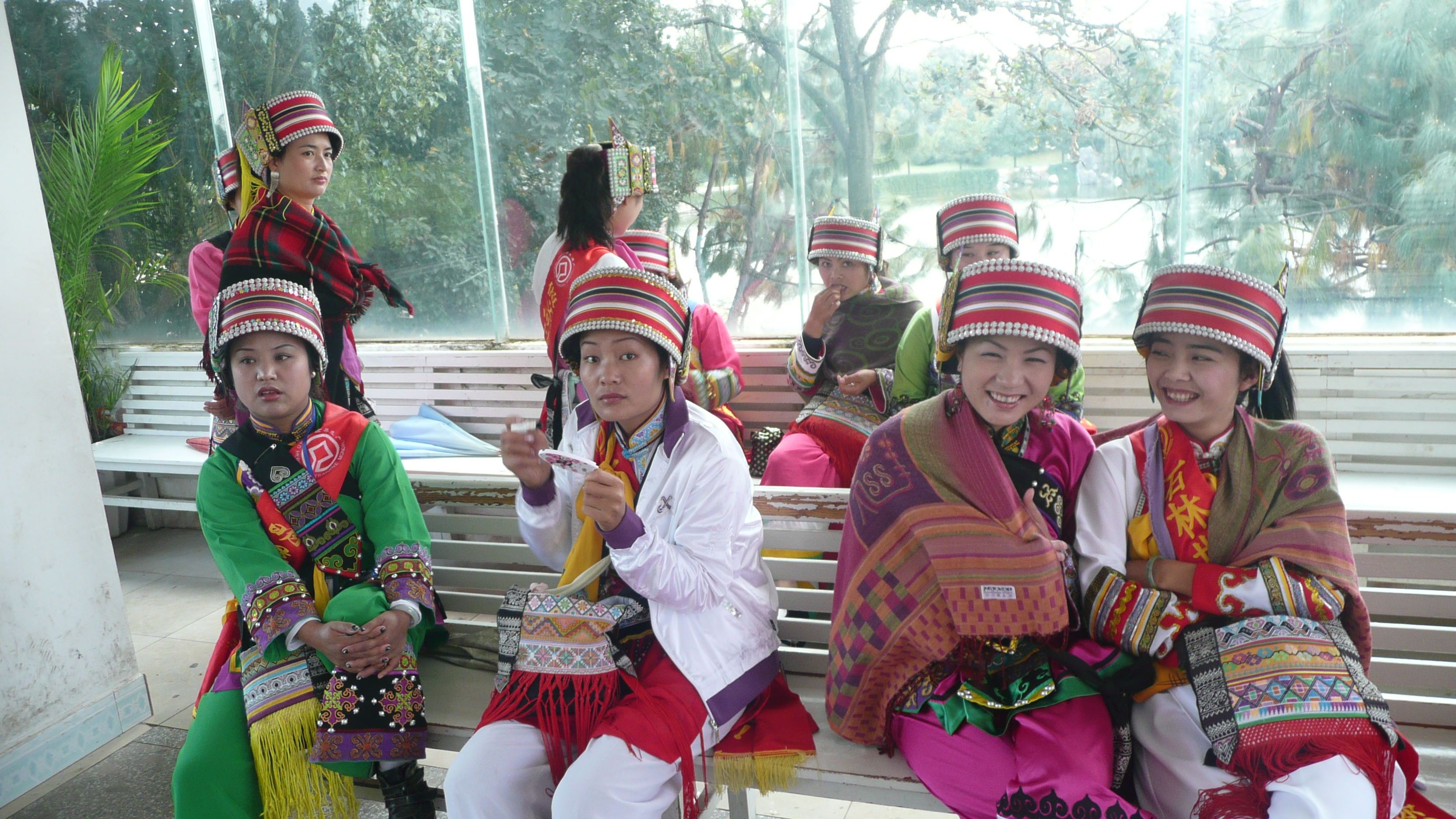 Representatives of the Yi Minority in Shilin (Kunming/Yunnan)